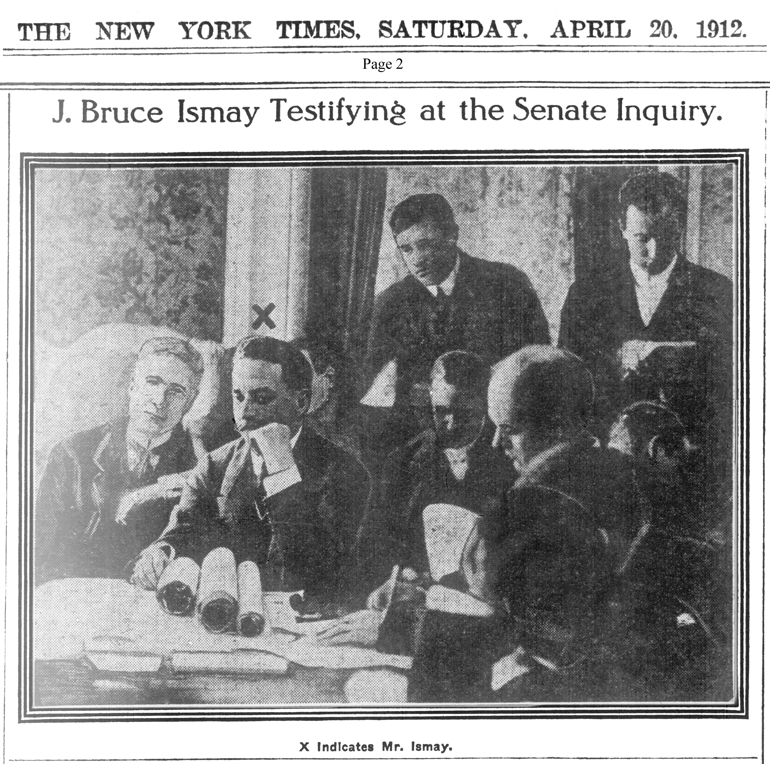 Photograph of English businessman J. Bruce Ismay testifying at a U.S. Senate Inquiry into sinking of the RMS Titanic.